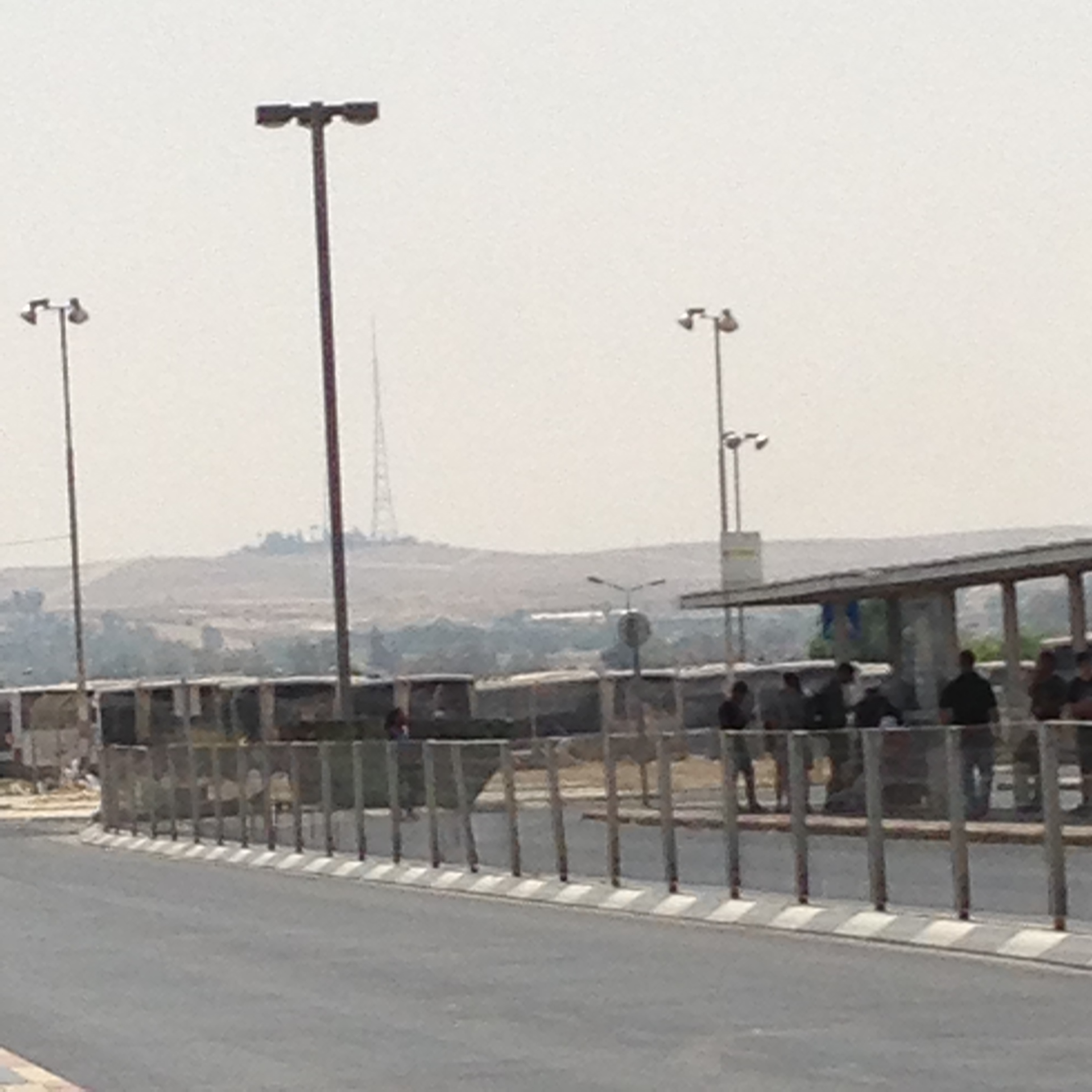 Beersheba Central Bus Station